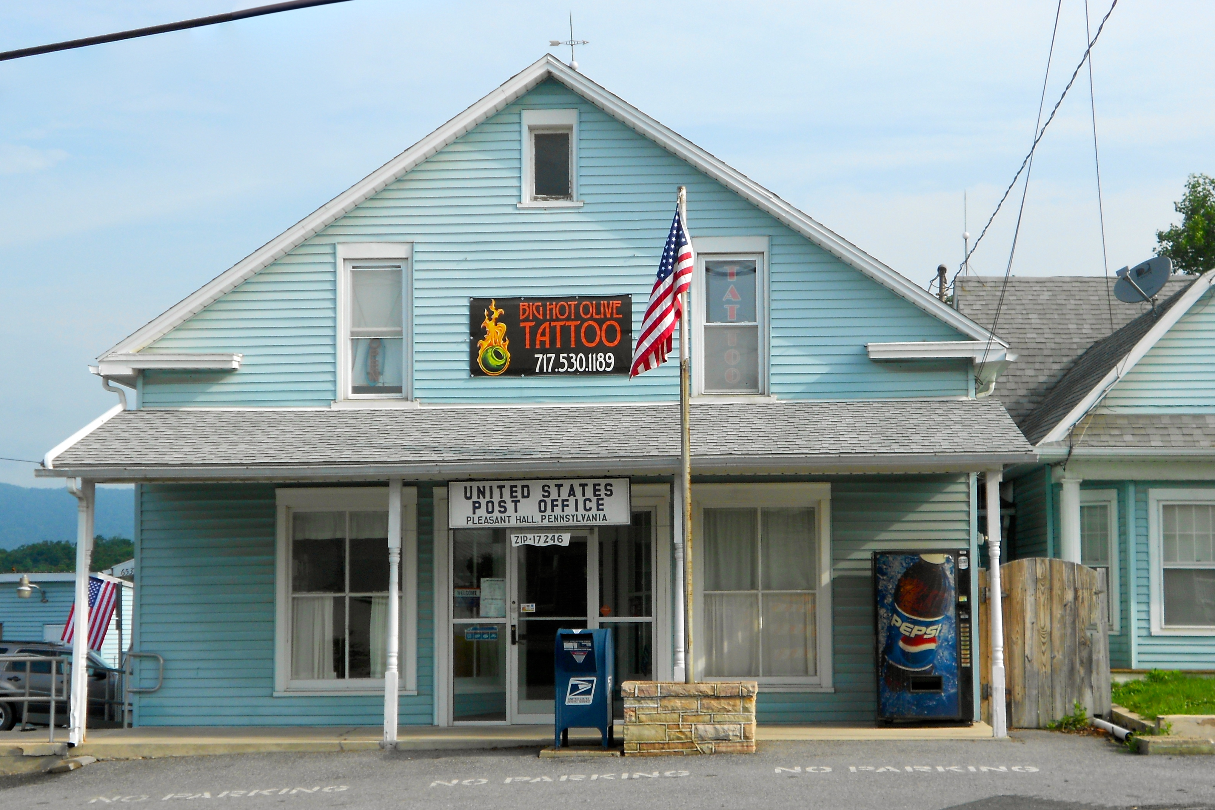 United States Post Office in Pleasant Hall, Letterkenny Township, Franklin County, Pennsylvania. It has a separate tattoo parlor in the same building. Zip code 17246.